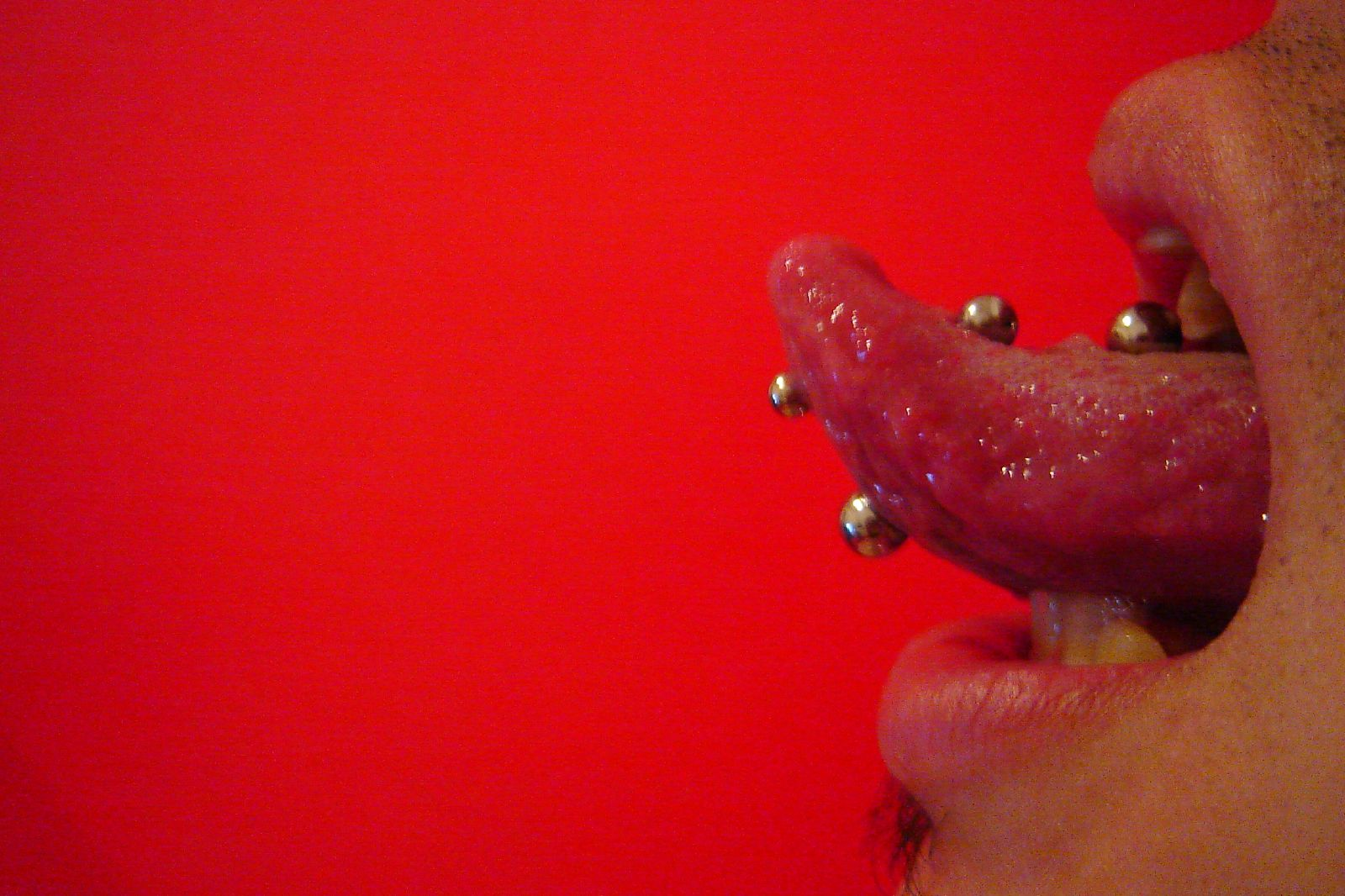 tounge piercings